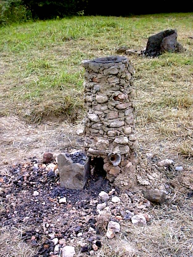 Bloomery after use, for the iron festival of Plélan-le-Grand (France) in 1998. We can see tuyeres at the bottom; there are four of them, to collect the wind from any direction.